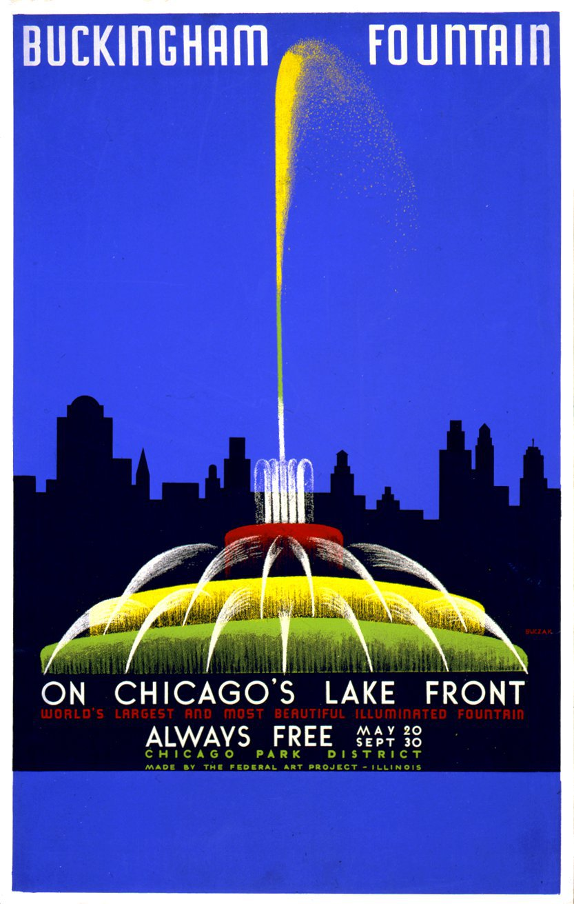 Buckingham Fountain on Chicago's lake front, world's largest and most beautiful illuminated fountain ... / Buczak.